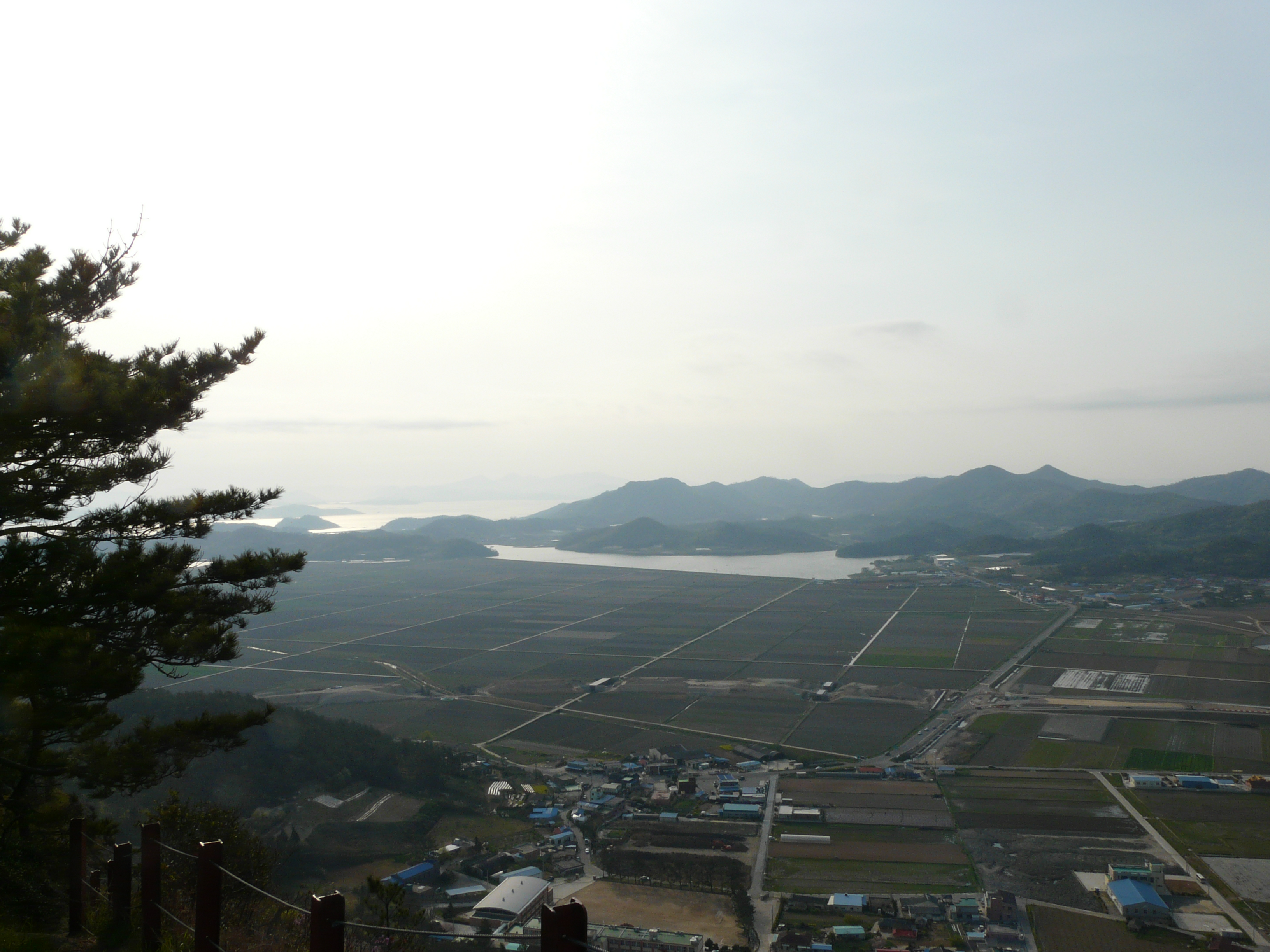 Photos from the Jindo island, Korea.